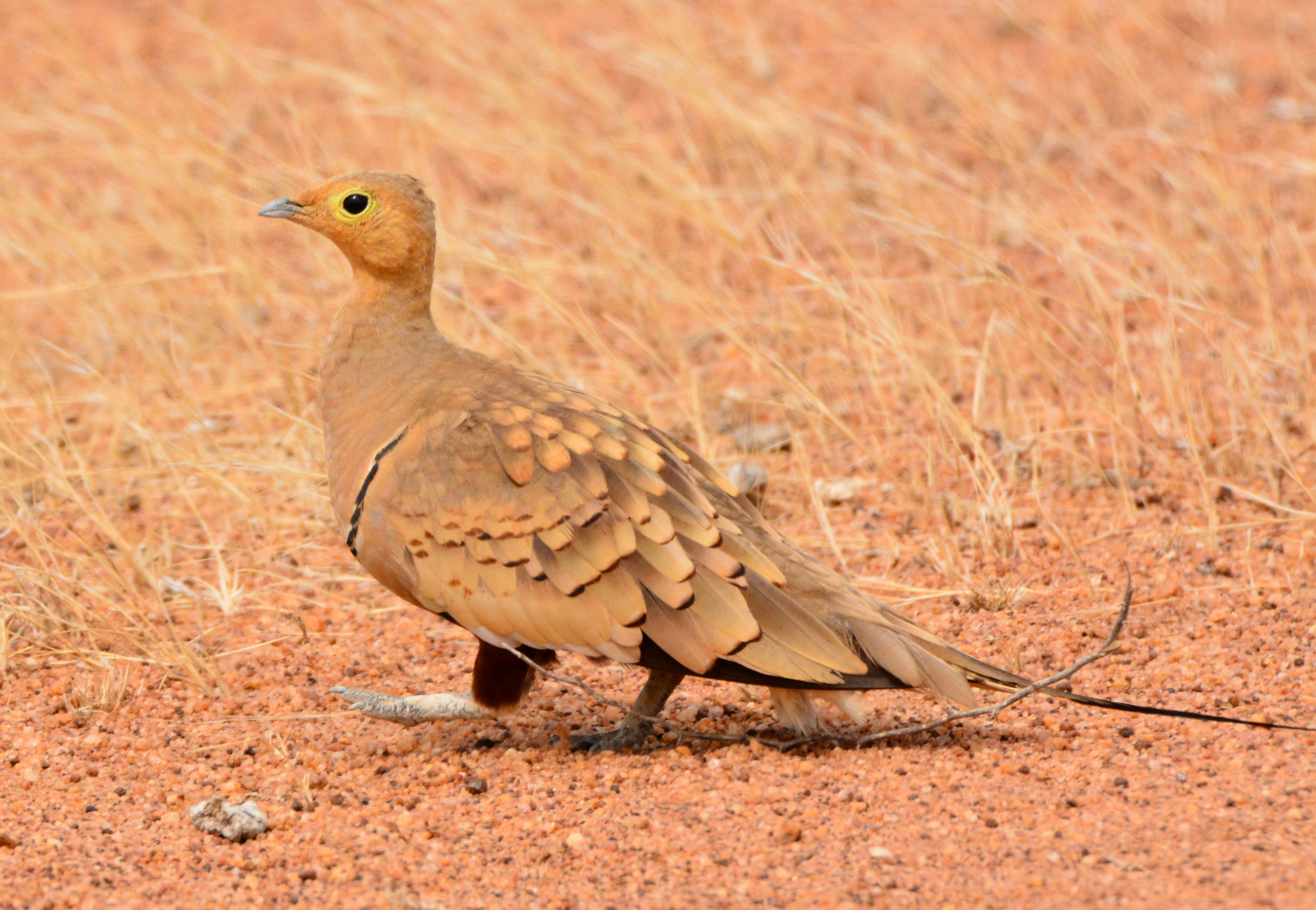 a male sandgrouse spotted at Tirunelveli,Tamilnadu,India.